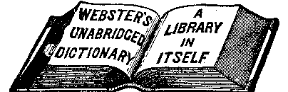 From The American Missionary, Volume XLII. No. 10. October 1888, by Various Part of an advertisement for Webster's Dictionary Caption 3000 more Words and nearly 2000 more Illustrations than any other American Dictionary. Among the supplementary features, unequaled for concise and trustworthy information, are A Biographical Dictionary giving brief facts concerning 9,700 Noted Persons of ancient and modern times. A Gazetteer of the World locating and describing 25,000 Places; and a Vocabulary of the names of Noted Fictitious Persons and Places. The latter is not found in any other Dictionary. Webster excels in SYNONYMS which are appropriately found in the body of the work. Sold by all Booksellers. Pamphlet free. G. & C. MERRIAM & CO., Pub'rs, Springfield, Mass. Source Project Gutenberg [1] ([2]) Date October, 1888 Author Various